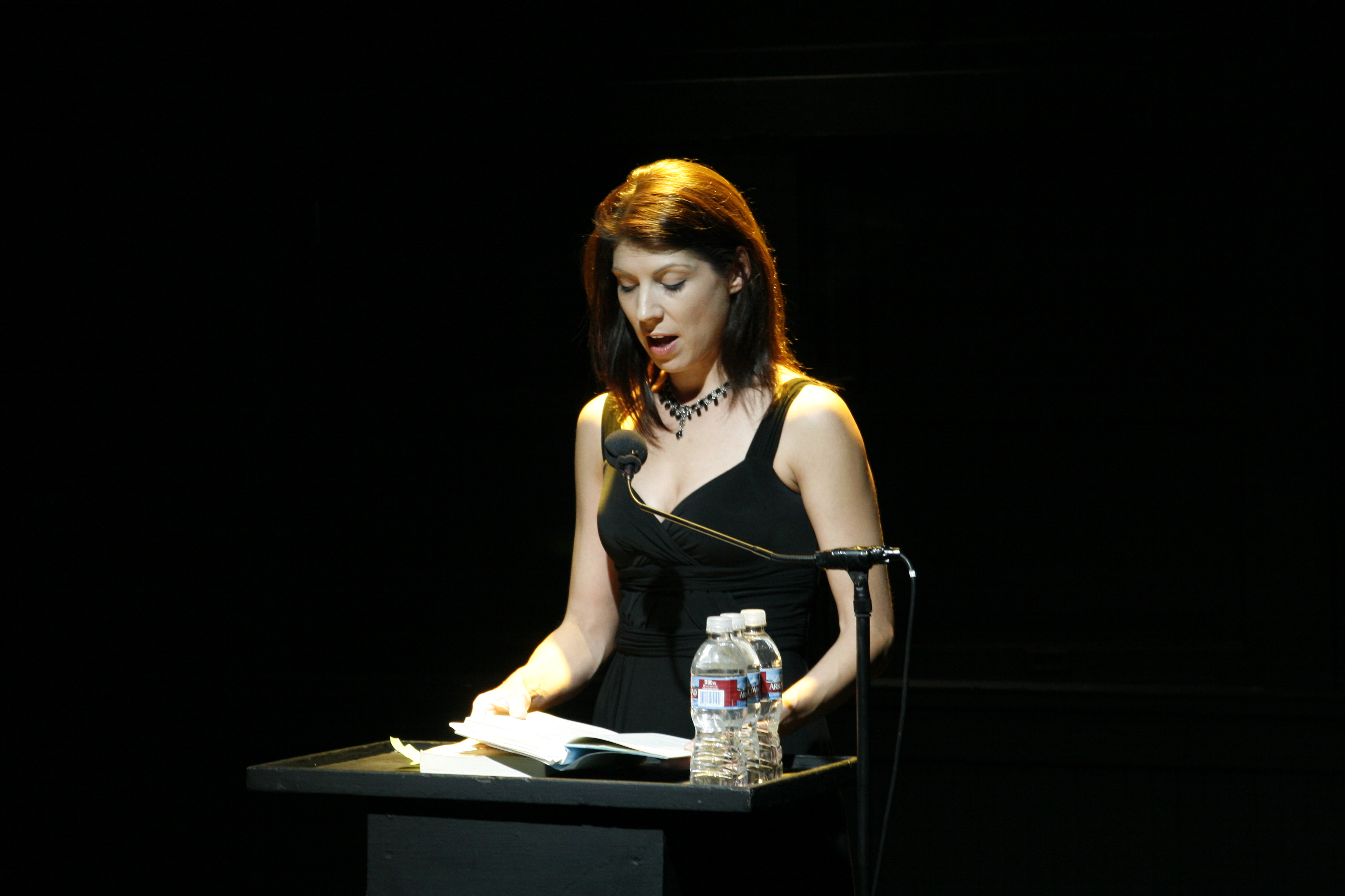 16 November, Friday - 7:30 PM TERRY WOLVERTON, CECILIA WOLOCH, and STEPHANIE HEMPHILL TERRY WOLVERTON's latest collection of poems, Shadow and Praise, includes eleven sonnets and fifty-two prose poems. Wolverton is author of Black Slip and Mystery Bruise, Embers, Insurgent Muse: Life and Art at the Woman's Building, a memoir, and Bailey's Beads, a novel. A new novel, The Labrys Reunion, will be published in 2008. She is founder of Writers At Work, a creative writing center in Los Angeles. CECILIA WOLOCH is the author of Sacrifice, a BookSense 76 selection in 2001, Tsigan: The Gypsy Poem, and Late, for which she was named Georgia Author of the Year in Poetry. Her newest collection, Narcissus, is forthcoming from Tupelo. STEPHANIE HEMPHILL's first novel-in-poems is Things Left Unsaid (Hyperion). Her second novel is a verse portrait of Sylvia Plath, Your Own, Sylvia (Knopf). A third novel-in-poems for teens, Salem, is forthcoming (Hyperion)